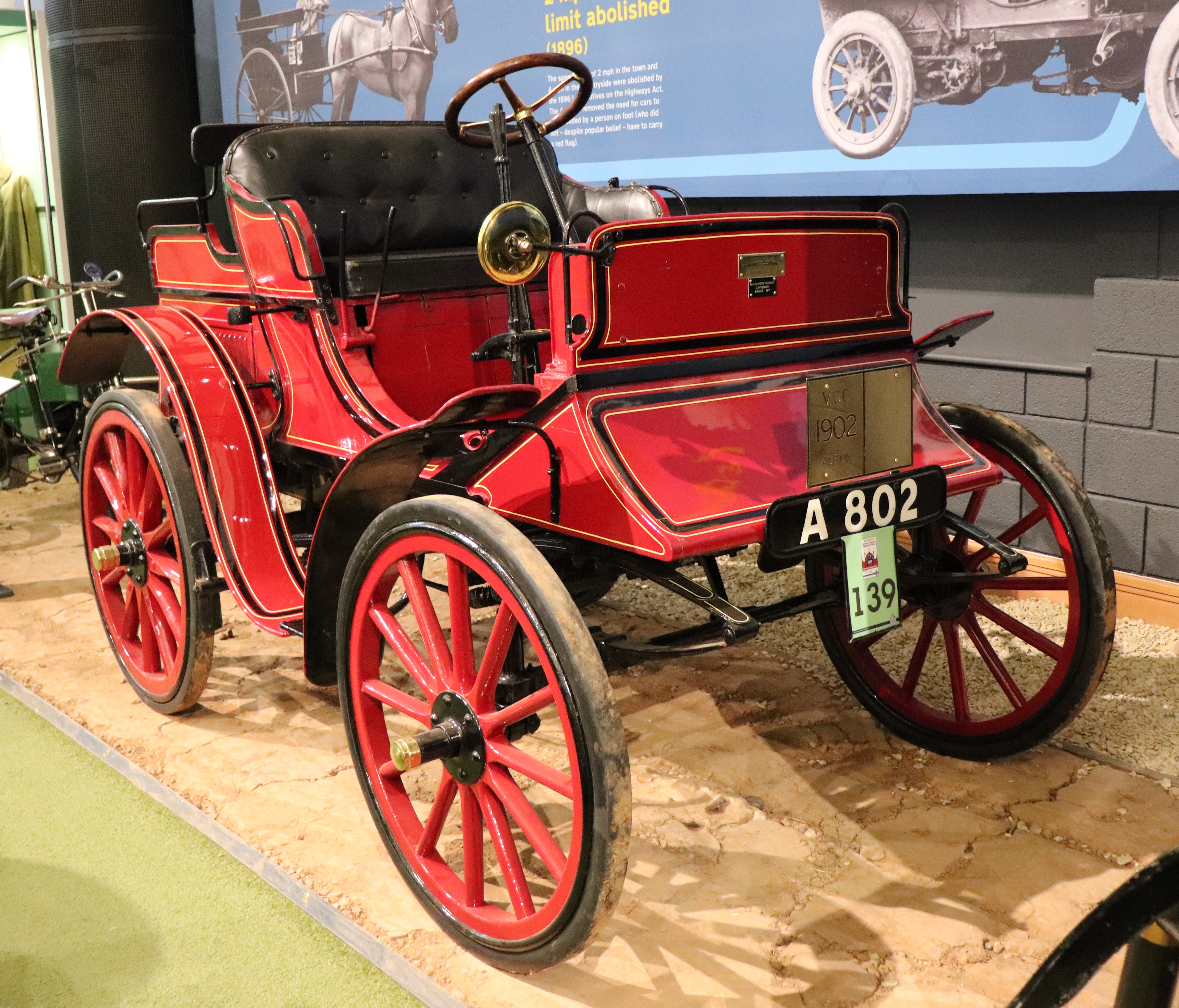 1902 Albion A1 8HP 2.1 Front Taken at the British Motor Museum, Gaydon